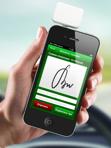 mPOS terminal